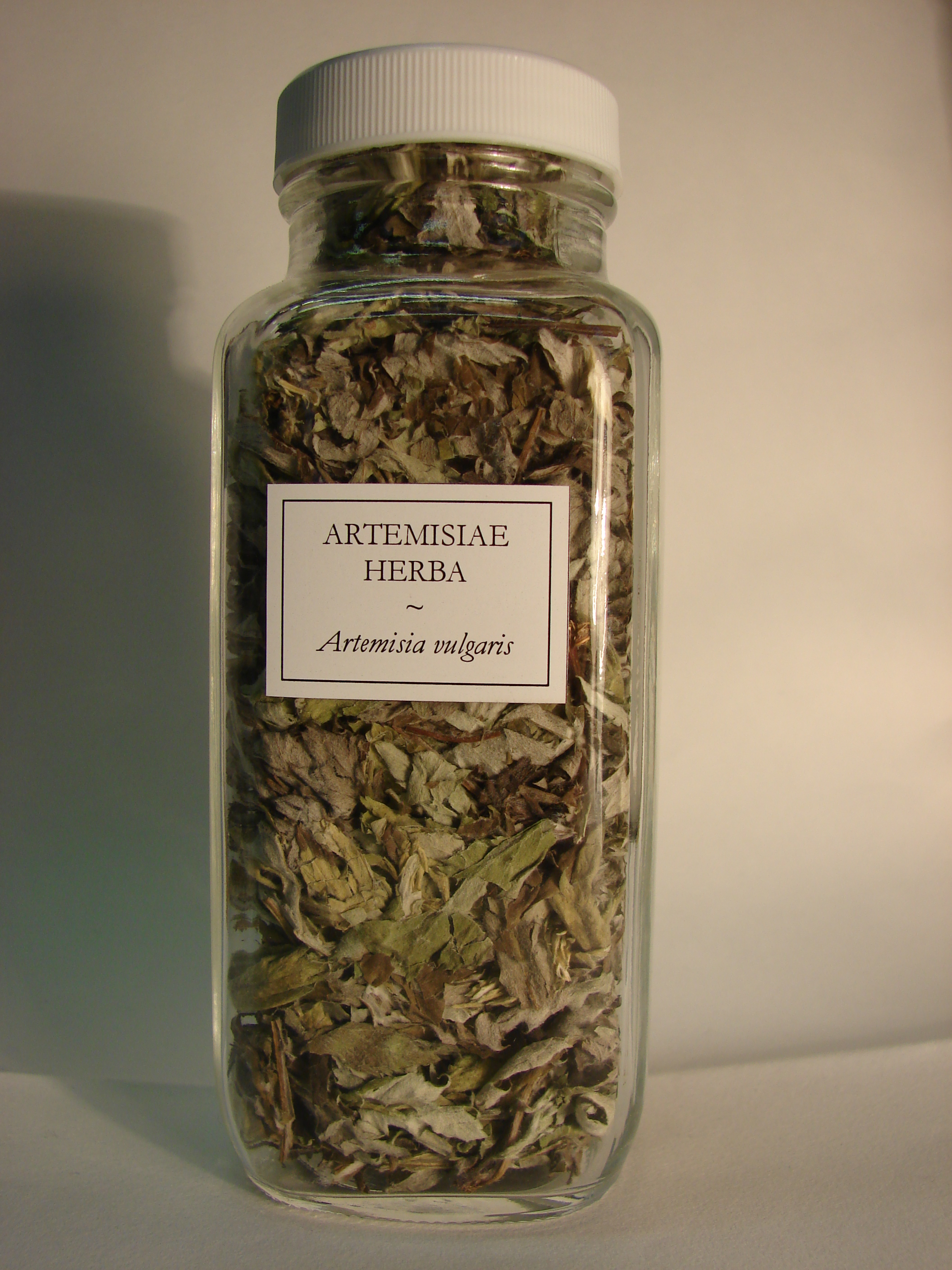 Artemisiae herba, Artemisia vulgaris